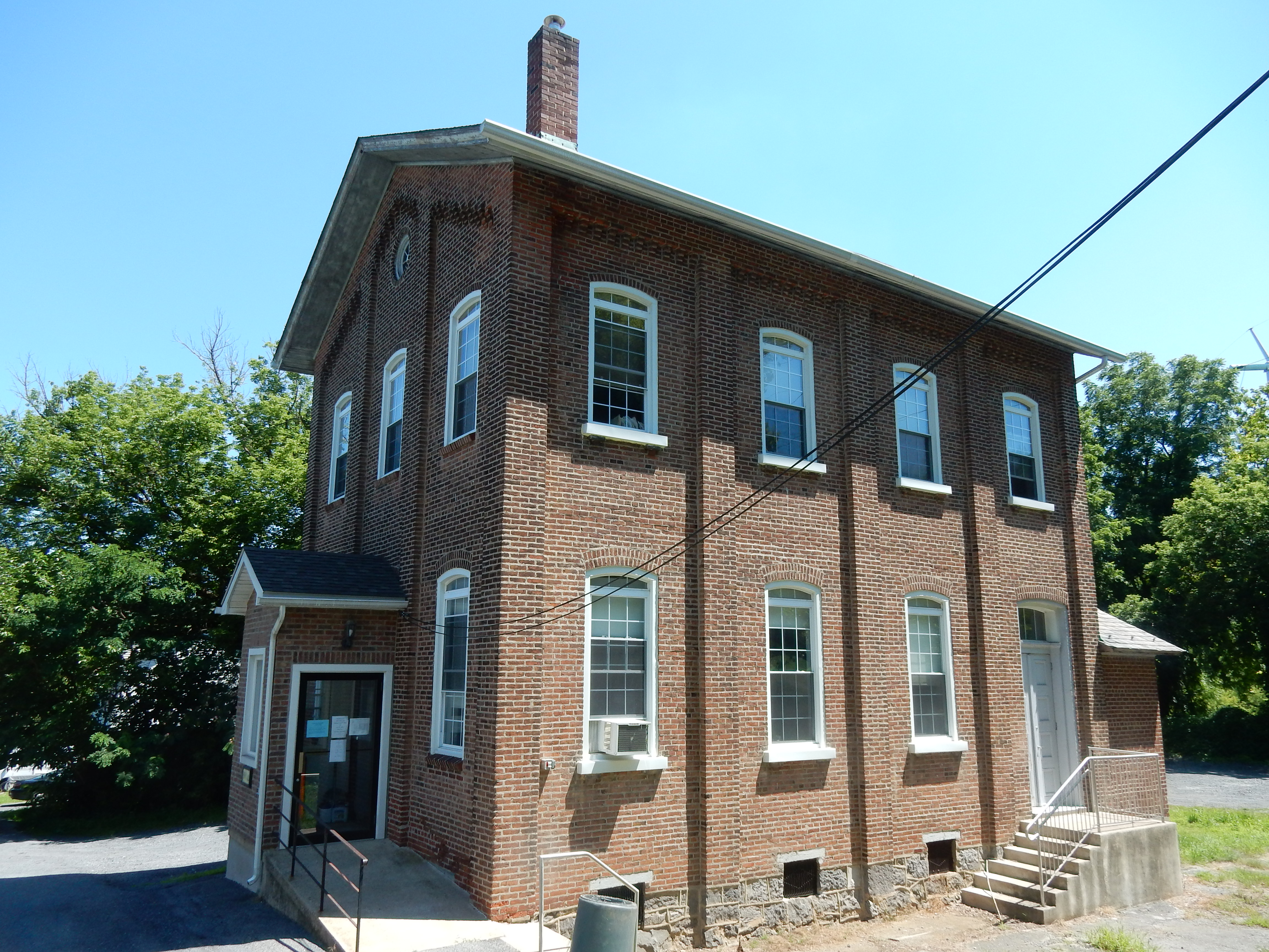 Glendon Borough Hall, Franklin St.,Glendon, Northampton County, Pennsylvania.